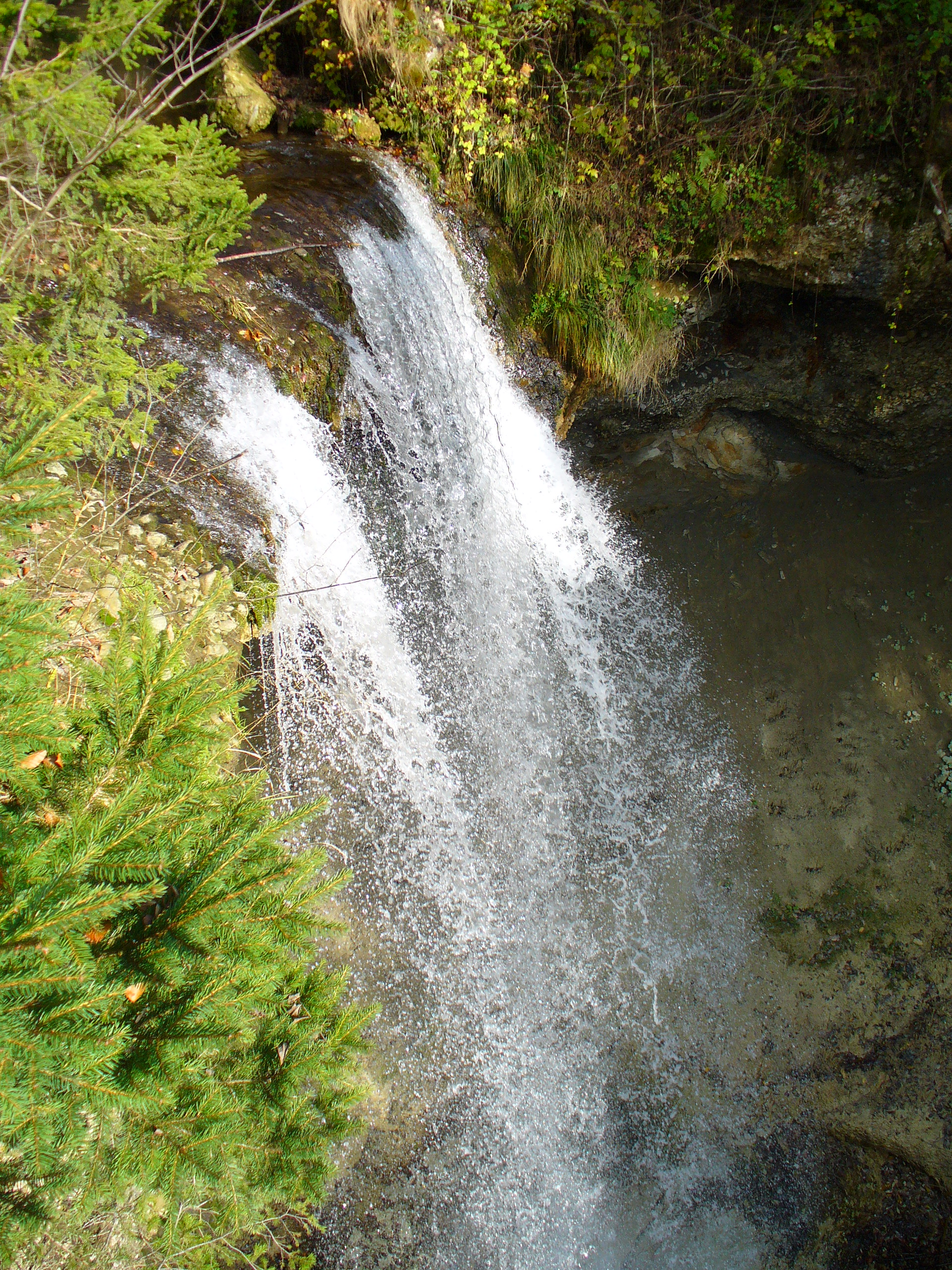 Upper Waterfall in Scheidegg, Germany